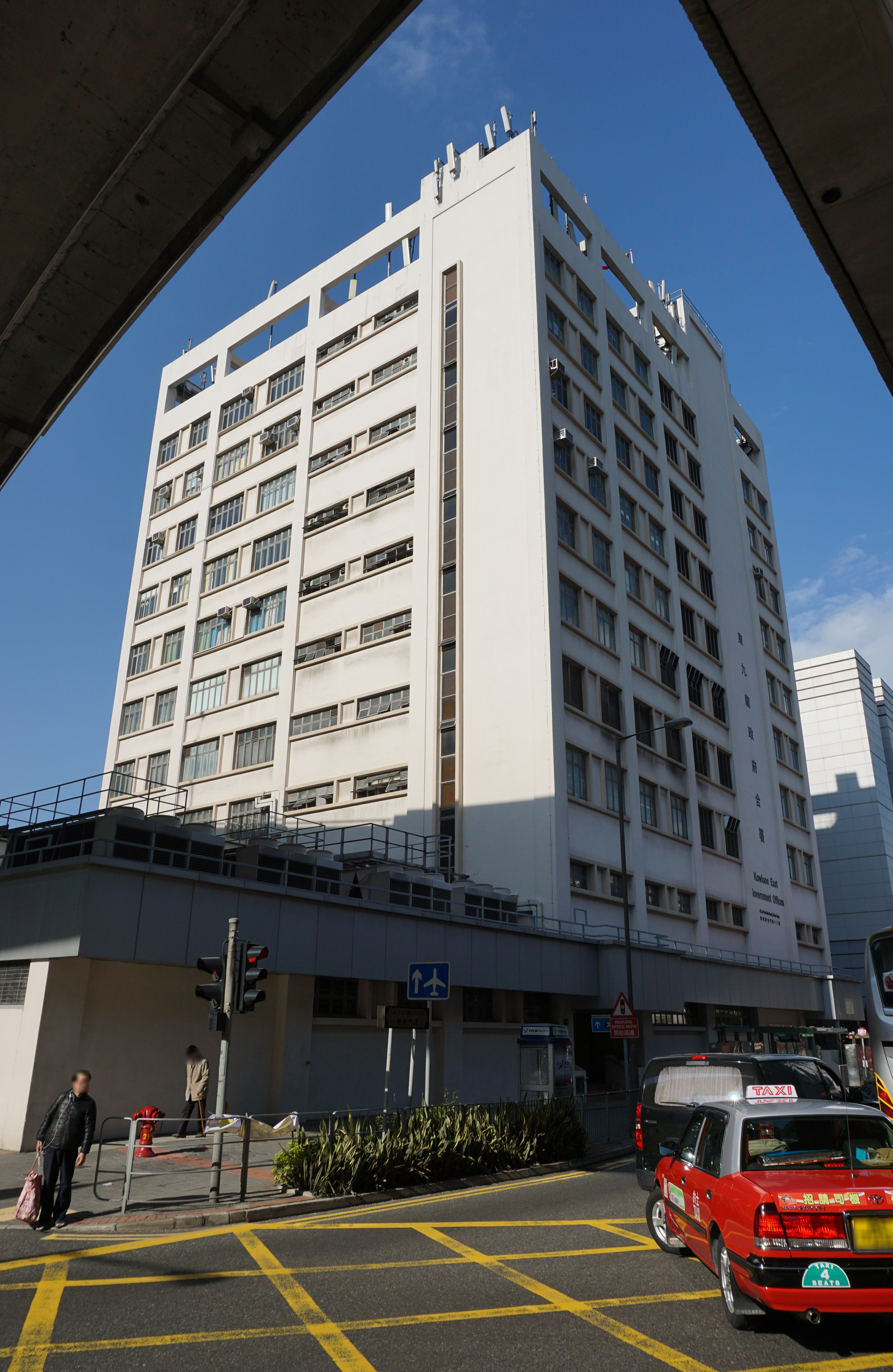 Kowloon East Government Offices in Kwun Tong, Hong Kong.